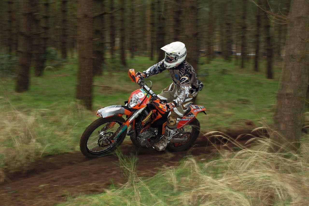 9 Daryl Bolter 250 KTM - Muntjac Enduro (British Enduro Championship , Muntjac, Thetford Forest, Norfolk, 2009)